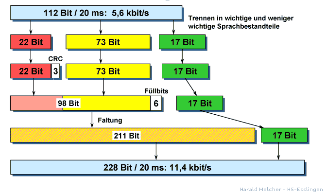 GSM Halfrate Codec